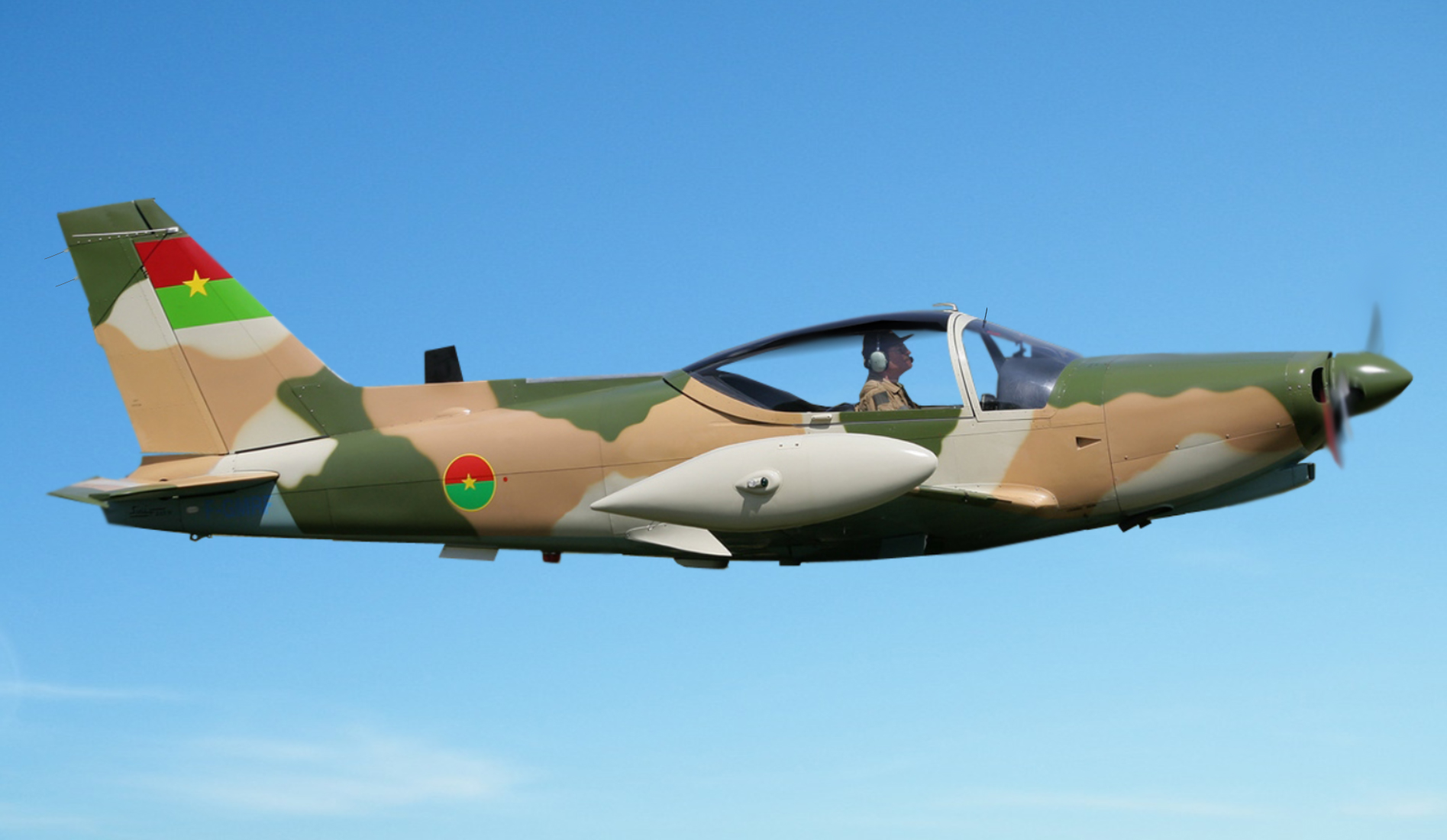 SIAI-Marchetti SF-260WL Warrior (modified)